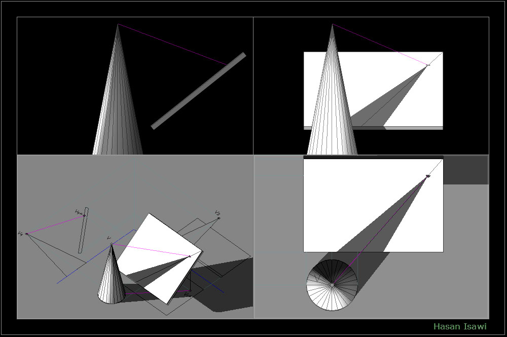 نظرية الظلال تحديد الموضع الفراغي لشعاع الضوء, معلومة الاسقاطات العمودية لظل نقطة V Shadow theory Teoria delle ombre determinare la posizione spaziale del raggio di luce note le proiezioni ortogonali dell'ombra di un punto